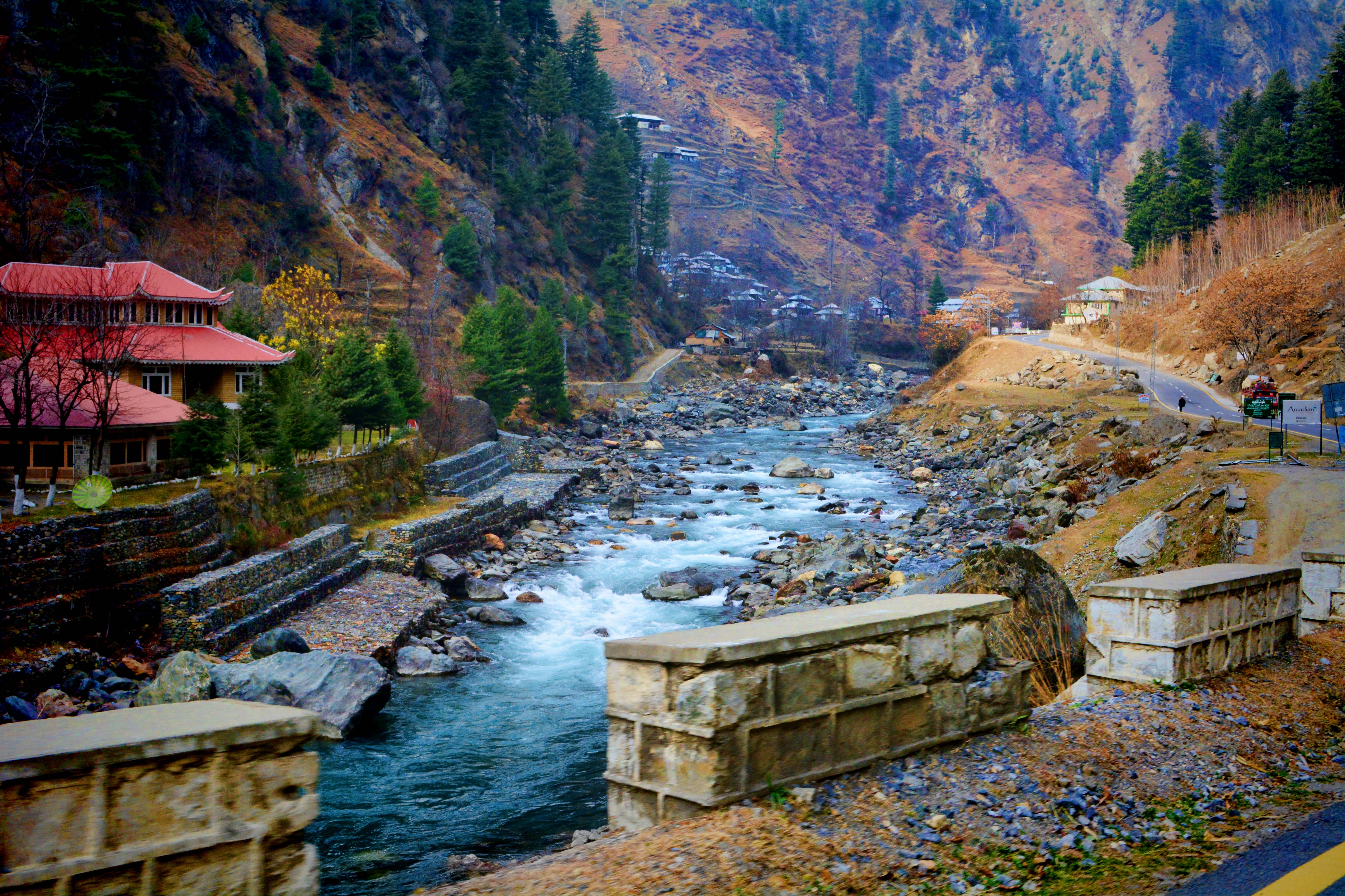 Darya-e-Kunhaar